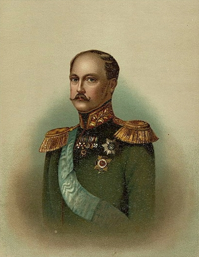 Nicholas I of Russia